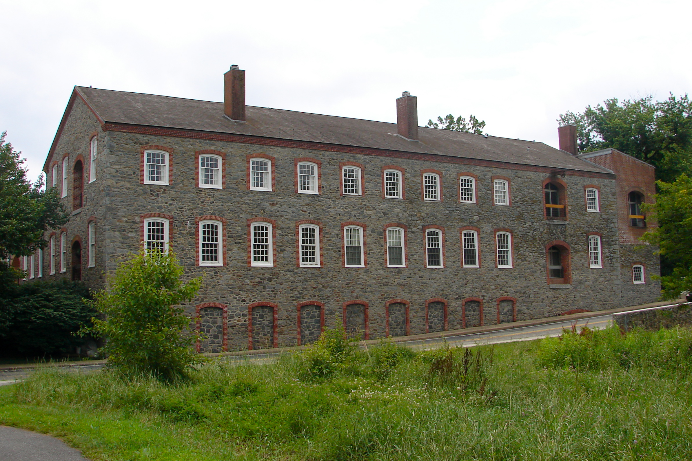 Rockland Historic District on the NRHP since February 1, 1972 In the "town of Rockland" and its environs along Rockland Rd. and Brandywine Creek, near Brandywine Creek State Park, north of Wilmington, Delaware.